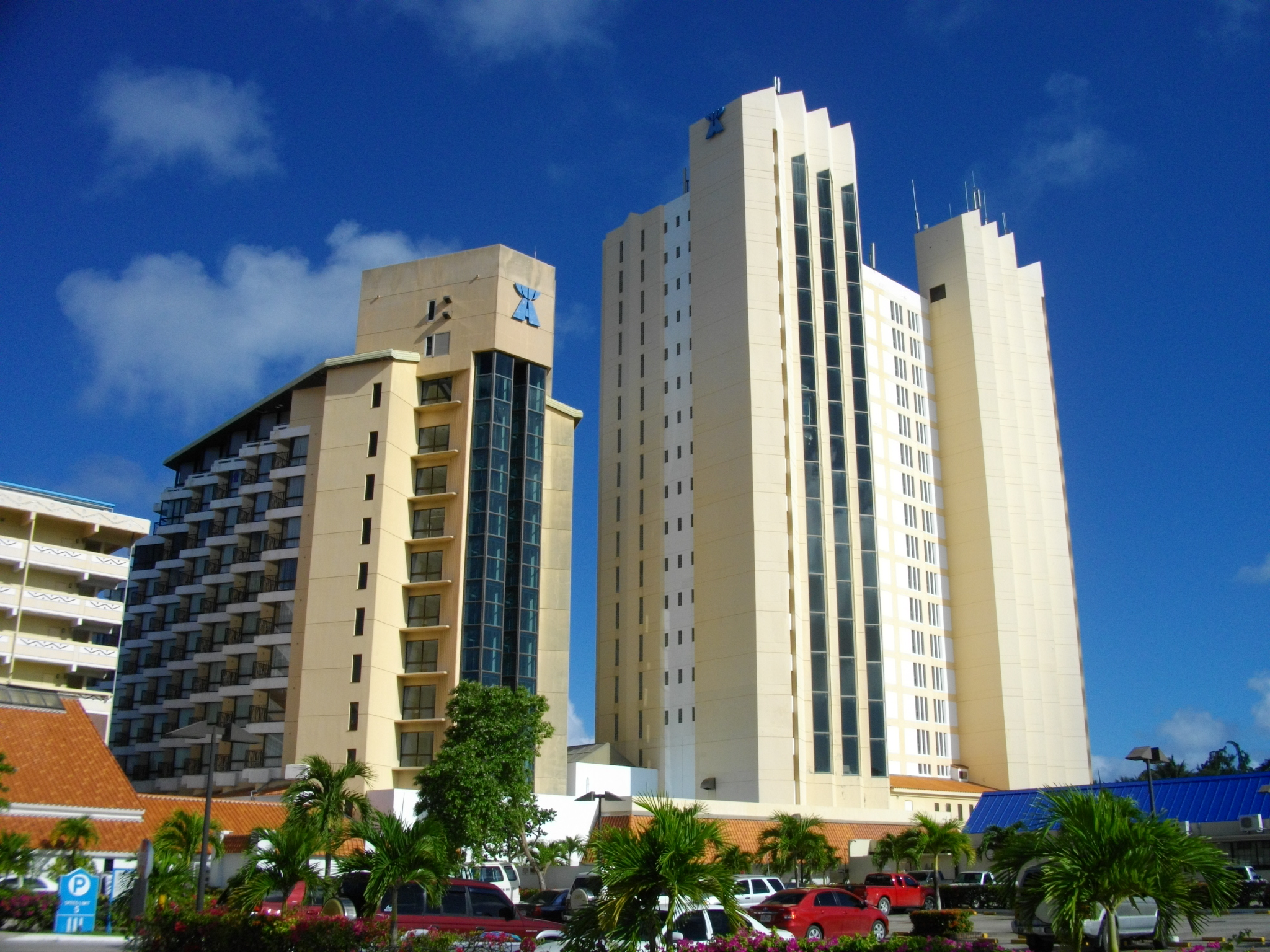 Hafadai Beach Hotel